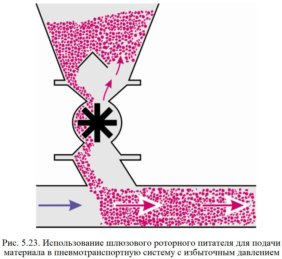 Figure 5.23. Rotary airlock feeding pneumatic conveying line